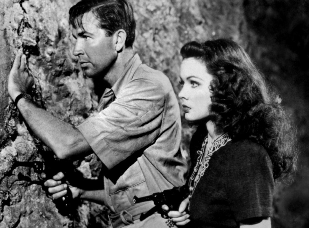 Bruce Cabot and Gene Tierney in the film Sundown - cropped screenshot